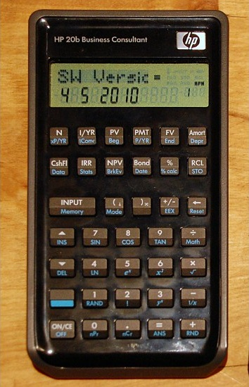 HP-20b business consultant calculator